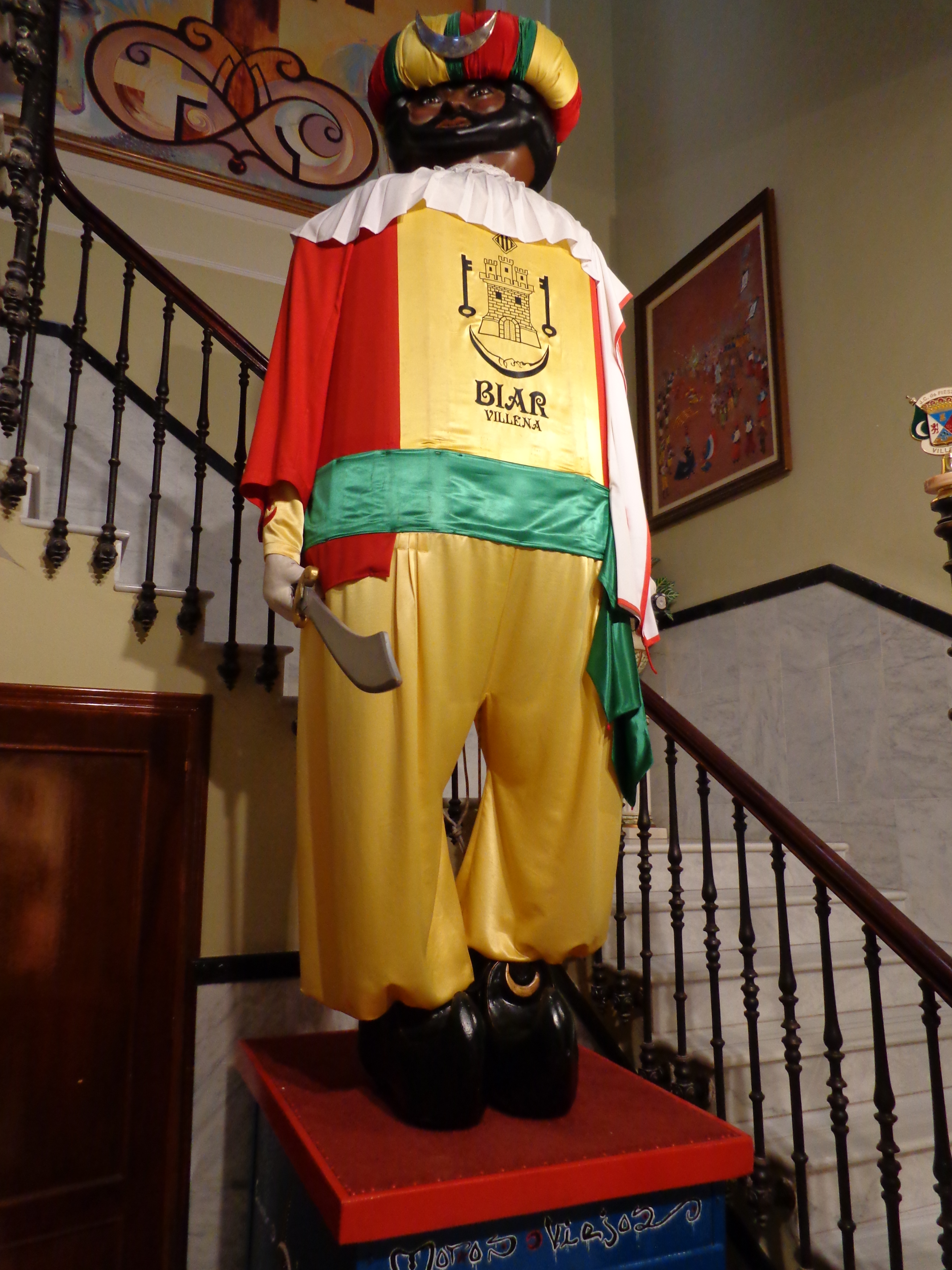 Casa del Festero, Villena, Spain 28.140-032.